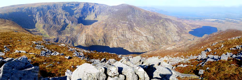 Mangerton Mountain (left), Lough Erhogh (centre), and Mangerton North Top (right), with the Horse's Glen (below), as photographed from the summit of Stoompa